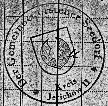 Seal of Seedorf, Germany